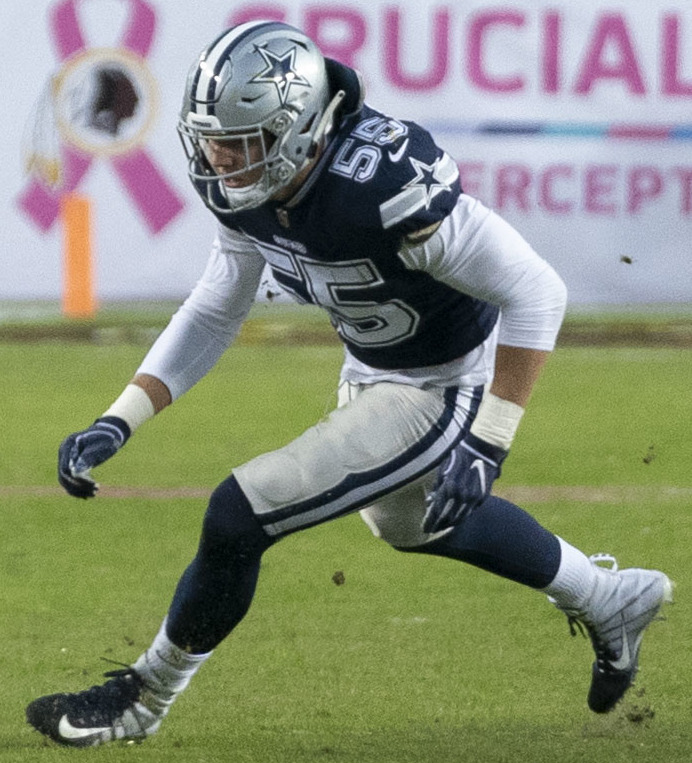 Cowboys at Redskins 10/21/18